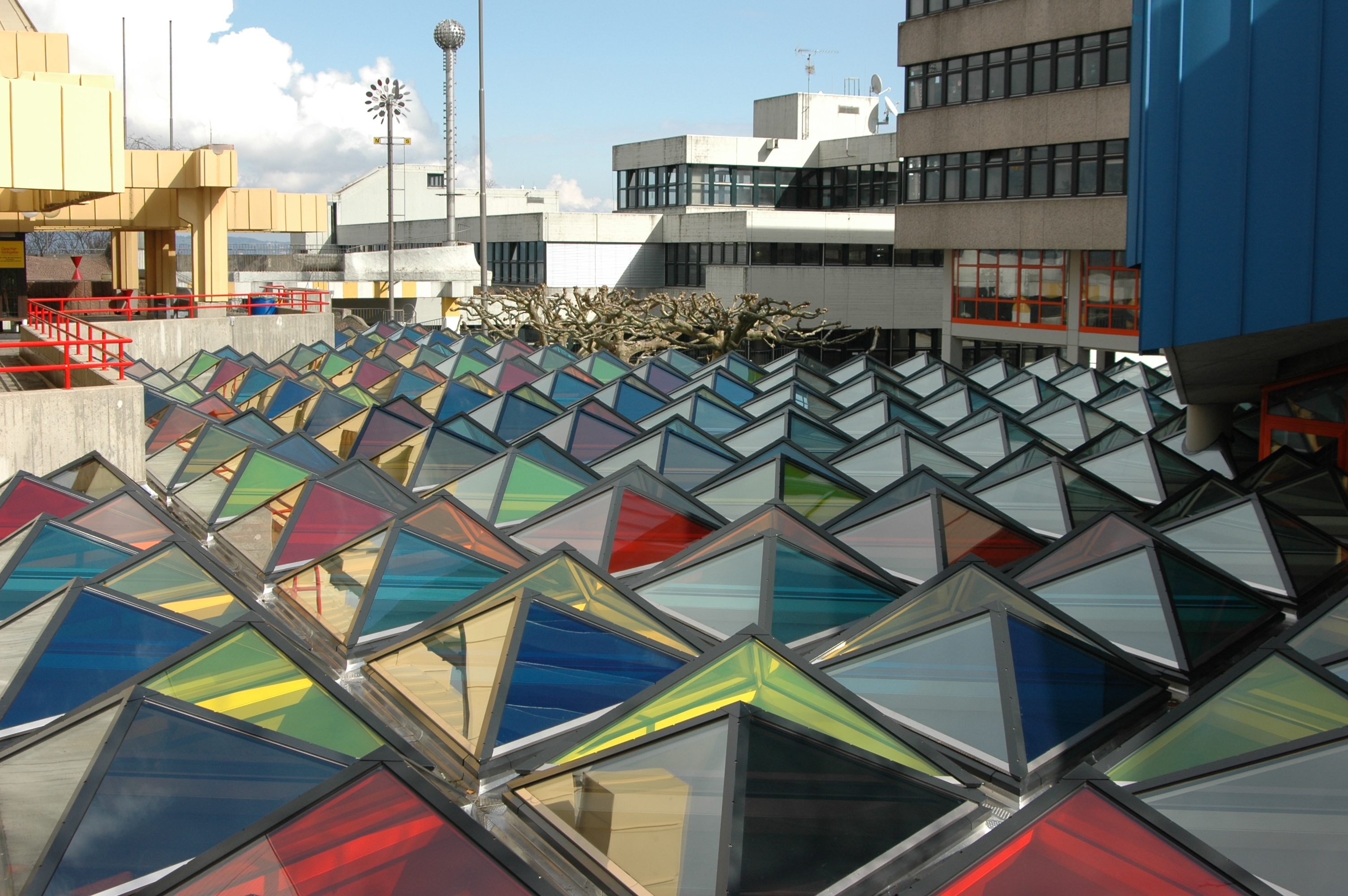 Glas roof of the University of Konstanz